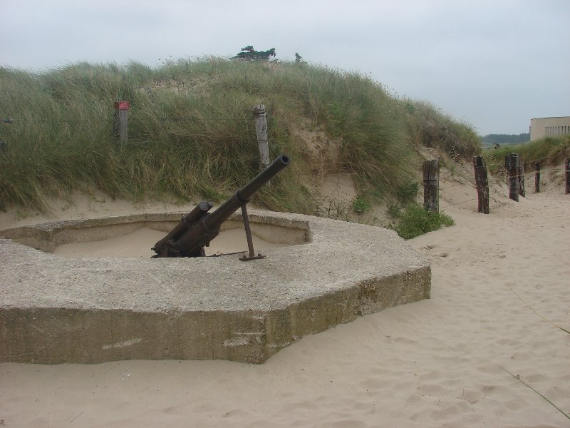 Tobrouk with a 50 mm gun W5 Utah Beach Normandy France